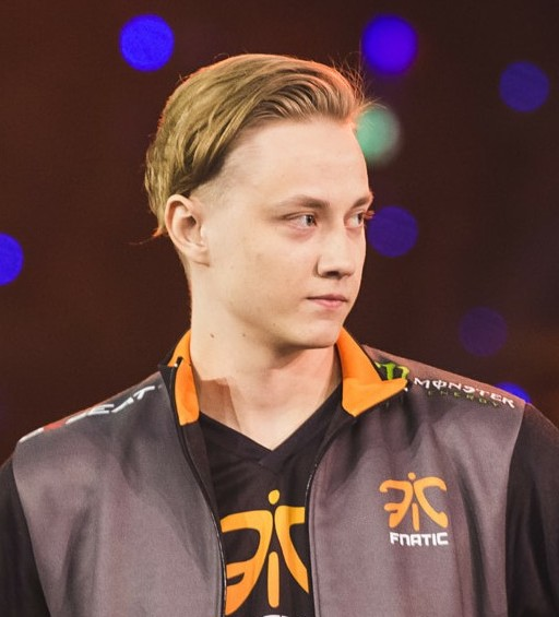 Rekkles at the 2015 League of Legends World Championship semi-finals in Brussels